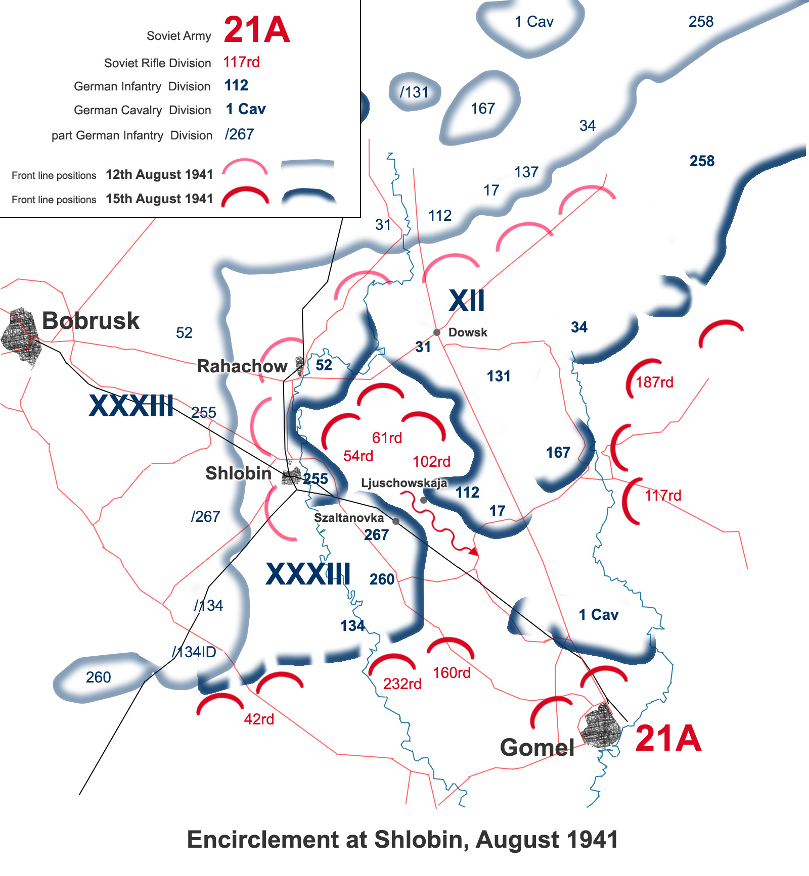 Map of encirclement battle at Sholbin, elements of Soviet 21st Army trapped by German 2nd Army advance. Depicting also 1st Cavalry Division advance on Gomel. 12-15 August 1941